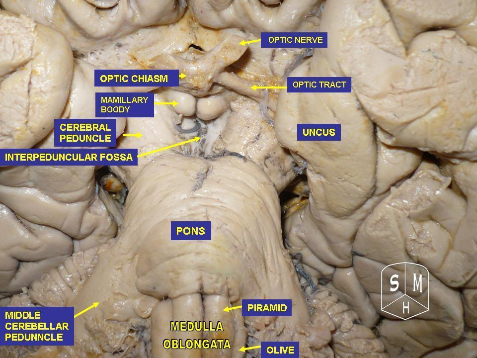 Pons and medulla oblongata